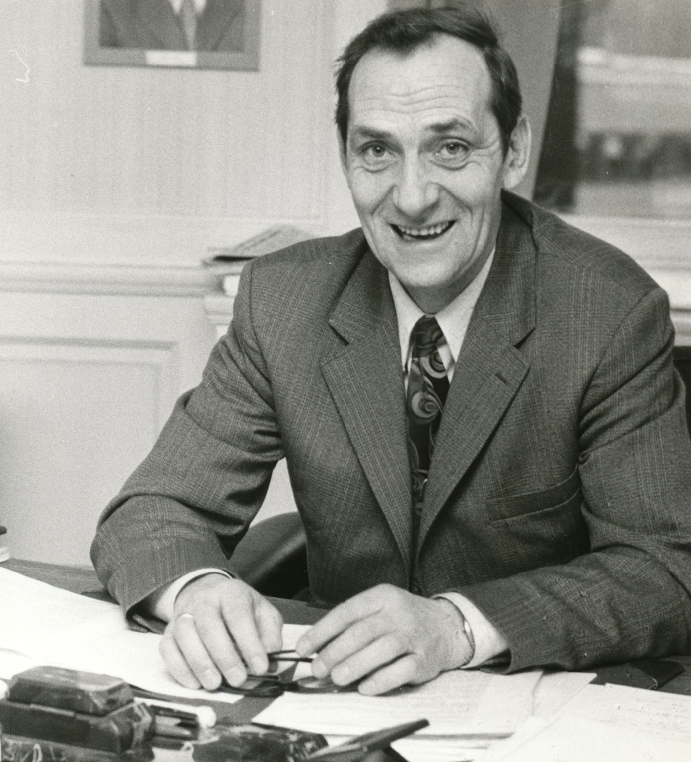 Eivind Bolle was a minister for the Ministry of Fisheries in three Labor governments in Norway from 16. of October 1973 to 14. of October 1981.